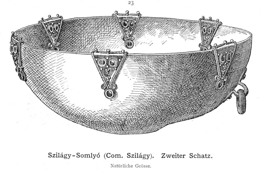 Szilágysomlyó treasure